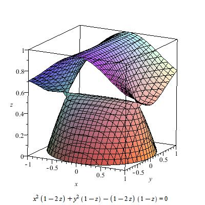 Cubic surface. Section with plane x=0 - parabola, eccentricity e=1, sections with planes z=k, k=0..0.5 - ellipses with e from 0 to 1, k=0.5..1 - hyperbolas with e from 1 to infinity. Painted in Maple.